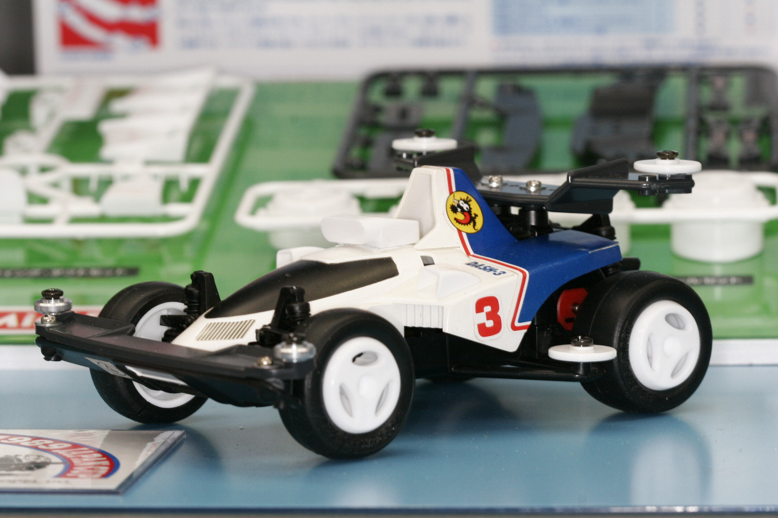 TAMIYA "Racer Mini 4WD" DASH-3 Shooting star